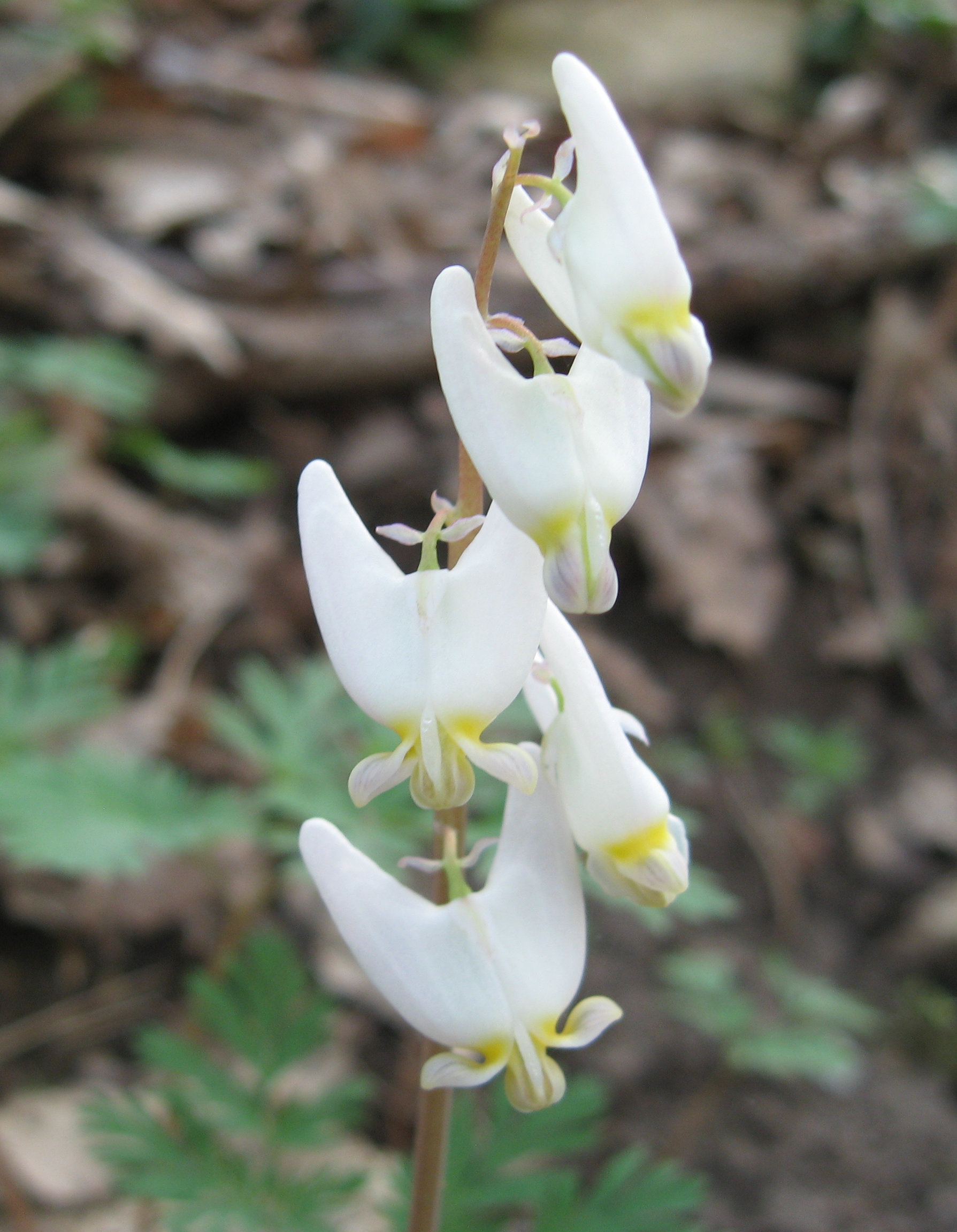 Dicentra cucullaria, forest near Stoner Creek, Bourbon County, Kentucky.